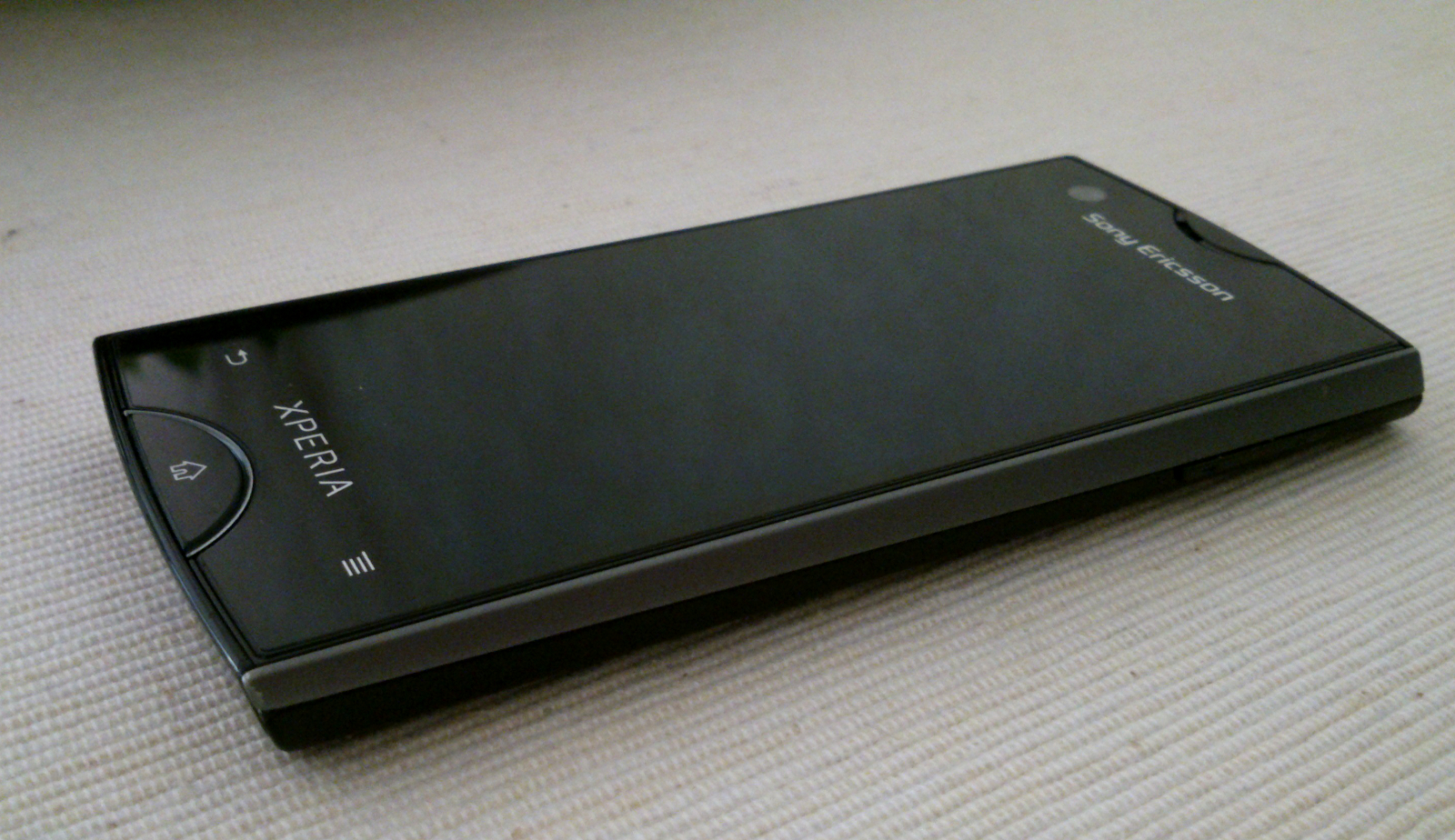 Sony Ericsson Xperia Ray mobile phone, black